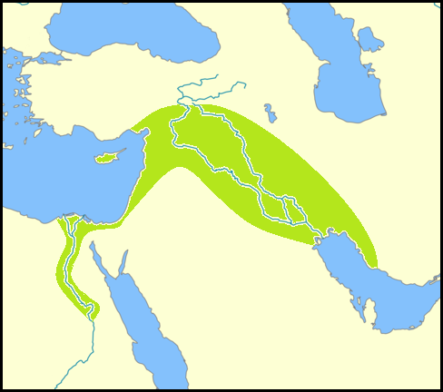 Locator map of the Fertile Crescent region.